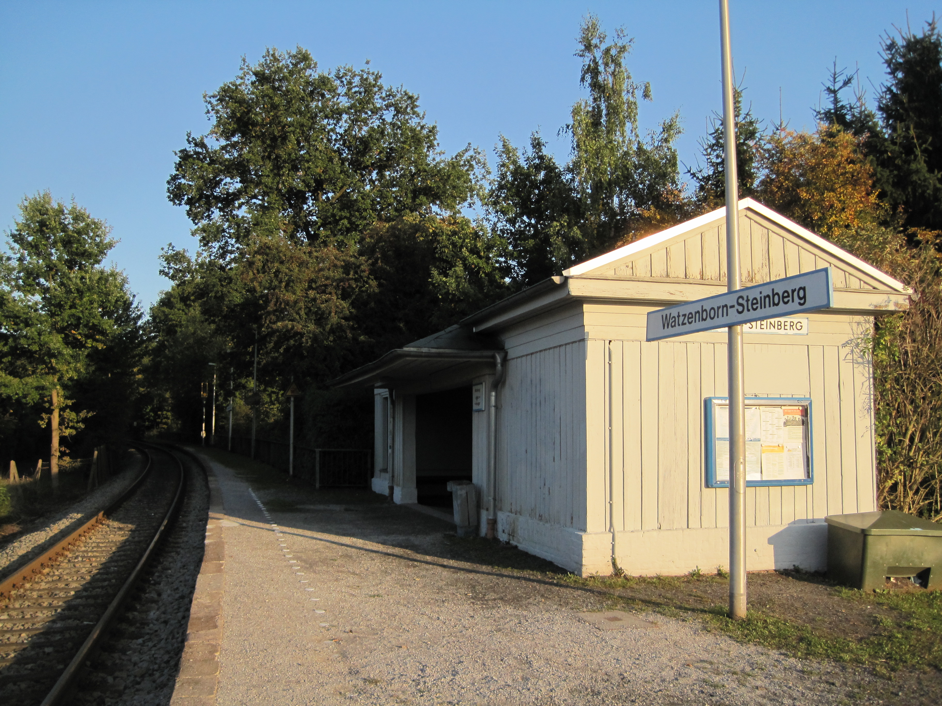 Watzenborn-Steinberg station, Gießen, Germany check usage